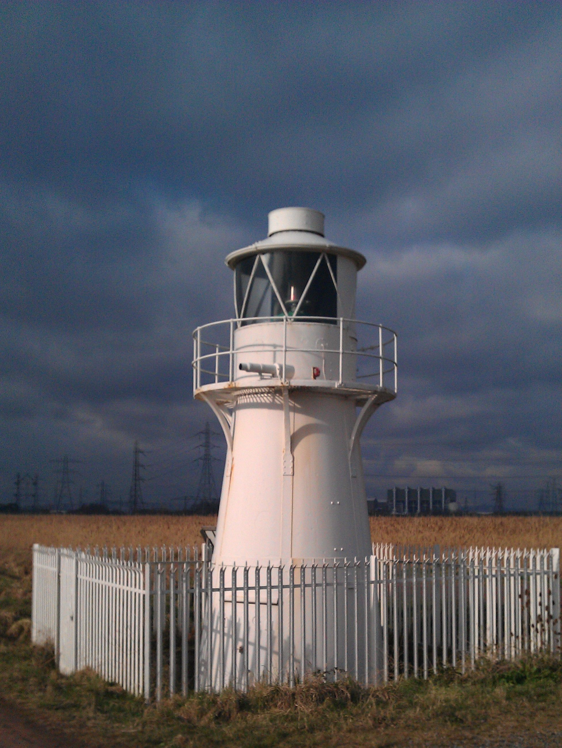 East Usk lighthouse, Newport Wetlands, Wales. Crop of File:East Usk Lighthouse 2012-02-12.jpg